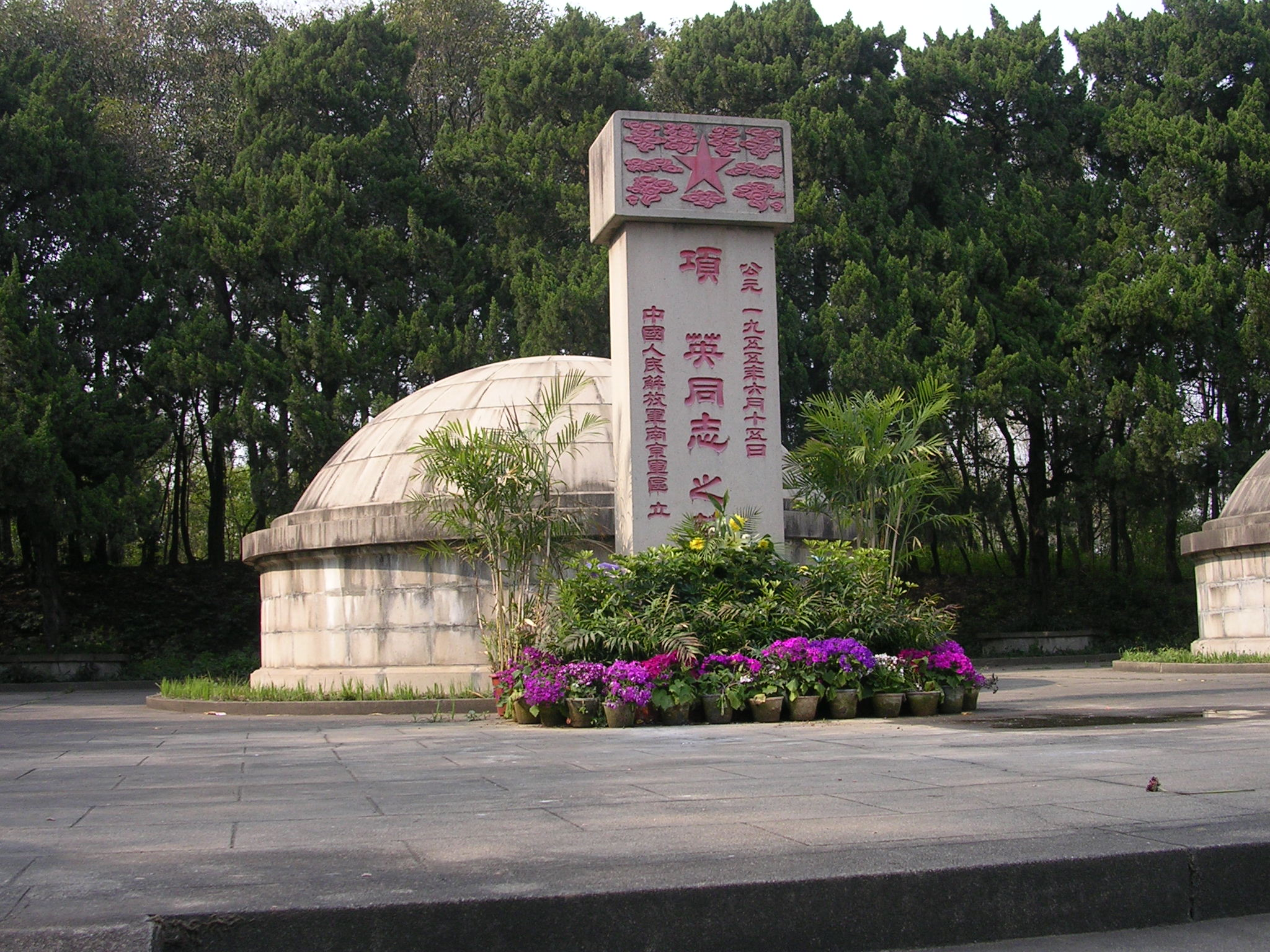 Xiang Ying's Tomb